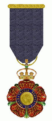 Companion of the Indian Empire. Model before 1887 CIE